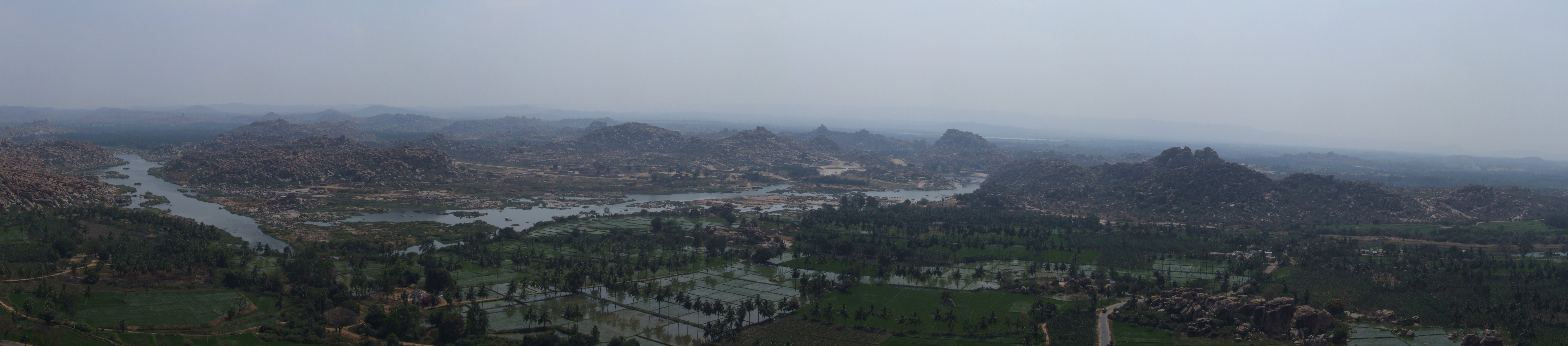 Hampi, India